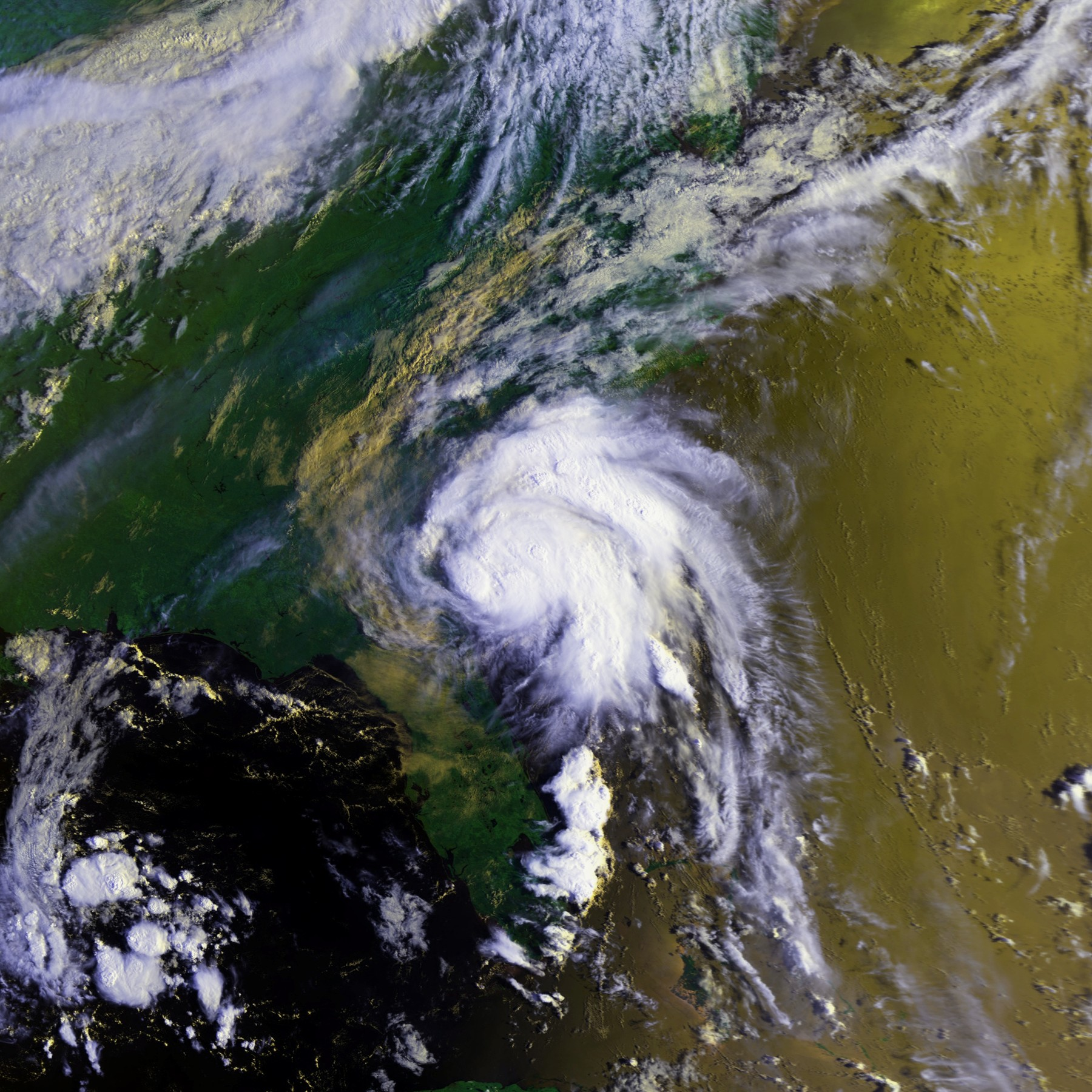 Tropical Storm Chris on August 28 at approximately 1326 UTC. This image was produced from data from NOAA-10, provided by NOAA.